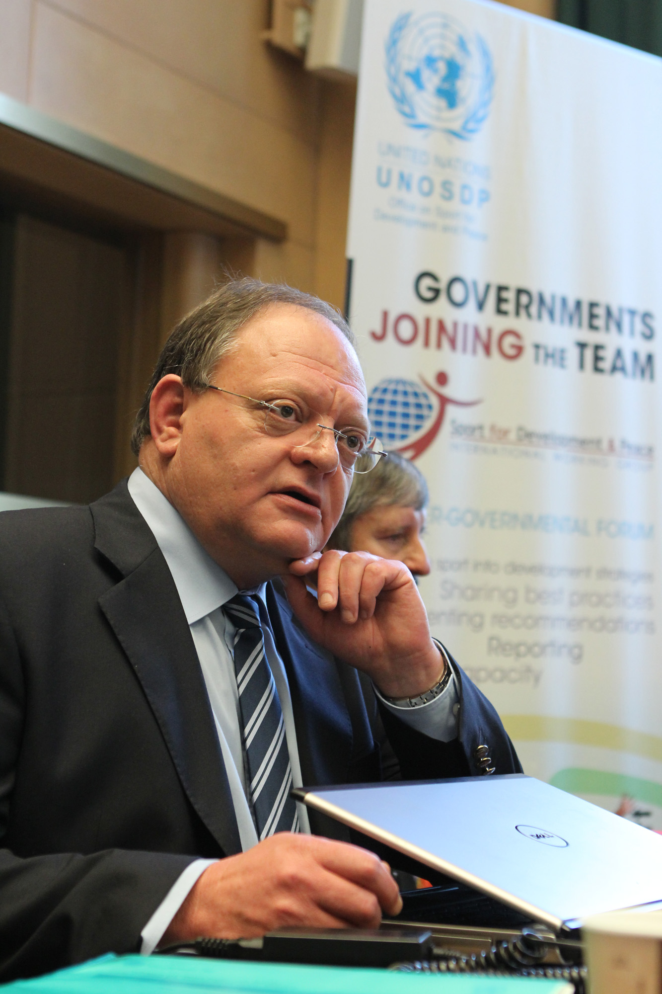 Geneva, 2 October 2012 Deputy Minister of Sport and Recreation South Africa, Gert Oosthuizen, addressing the participants of the 3rd Plenary Session of the Sport for Development and Peace International Working Group (SDP IWG) held at the UN Office at Geneva (UNOG), Switzerland, as a keynote speaker. . © UNOSDP/Antoine Tardy 2012